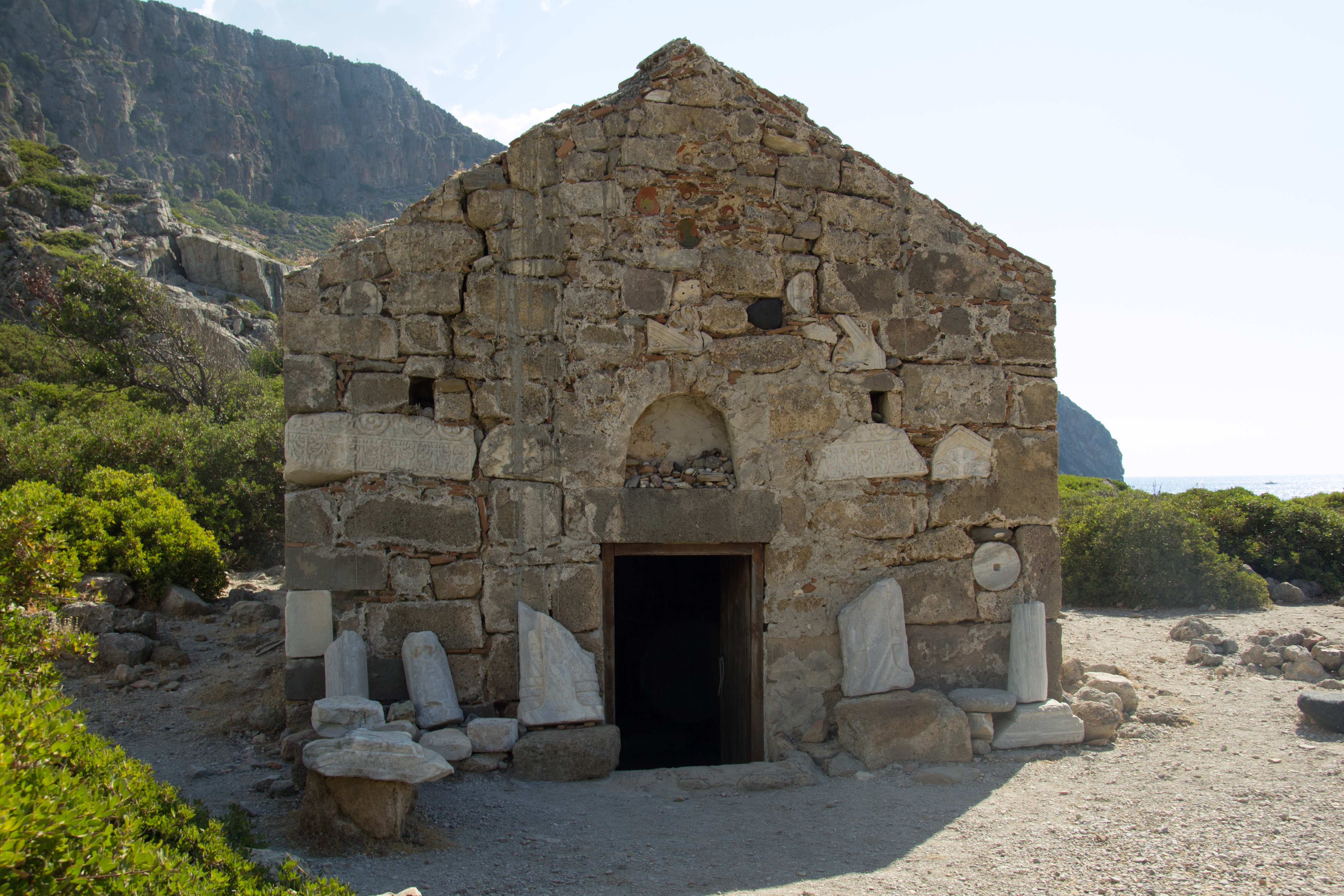 Byzantine church of the Virgin Mary, 14th century. Ruins and marble architectural fragments of a large early Christian basilica, 6th century AD. The marble built- in fragments belong to a sarcophagus of the Greco-Roman times. Lissos, Crete.